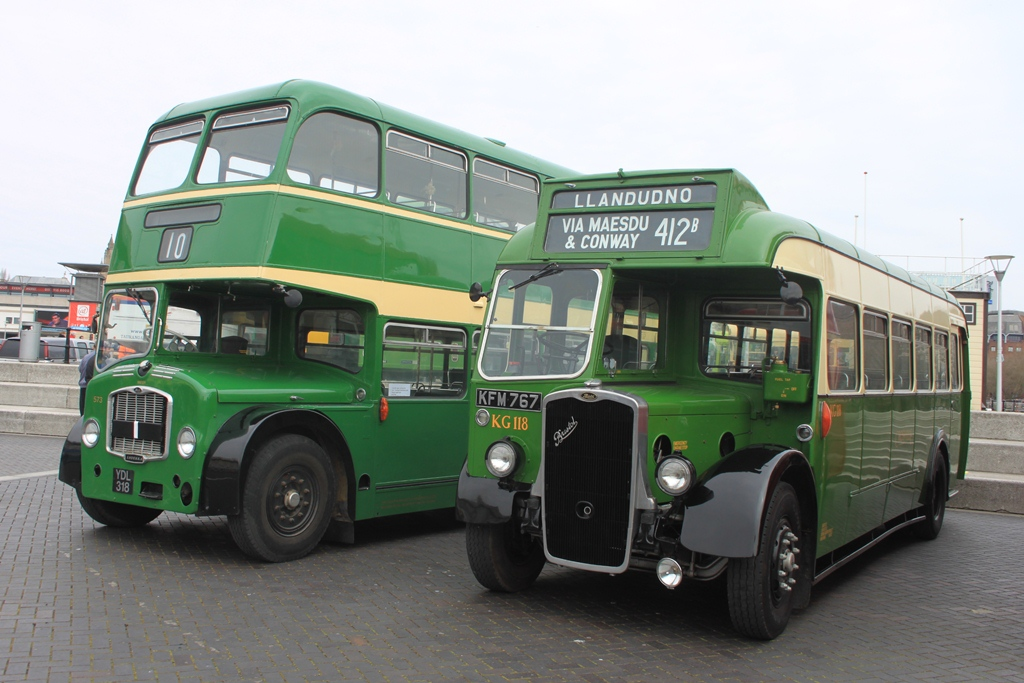 two of Crosville Motor Service' vintage buses on display at the Bristol Harbourside Bus Rally. On the left is Former Southern Vectis 573 (registration YDL 318), a Bristol LD double deck; on the left is former Crosville (Wales) Bristol L single deck KG118 (KFM 767).